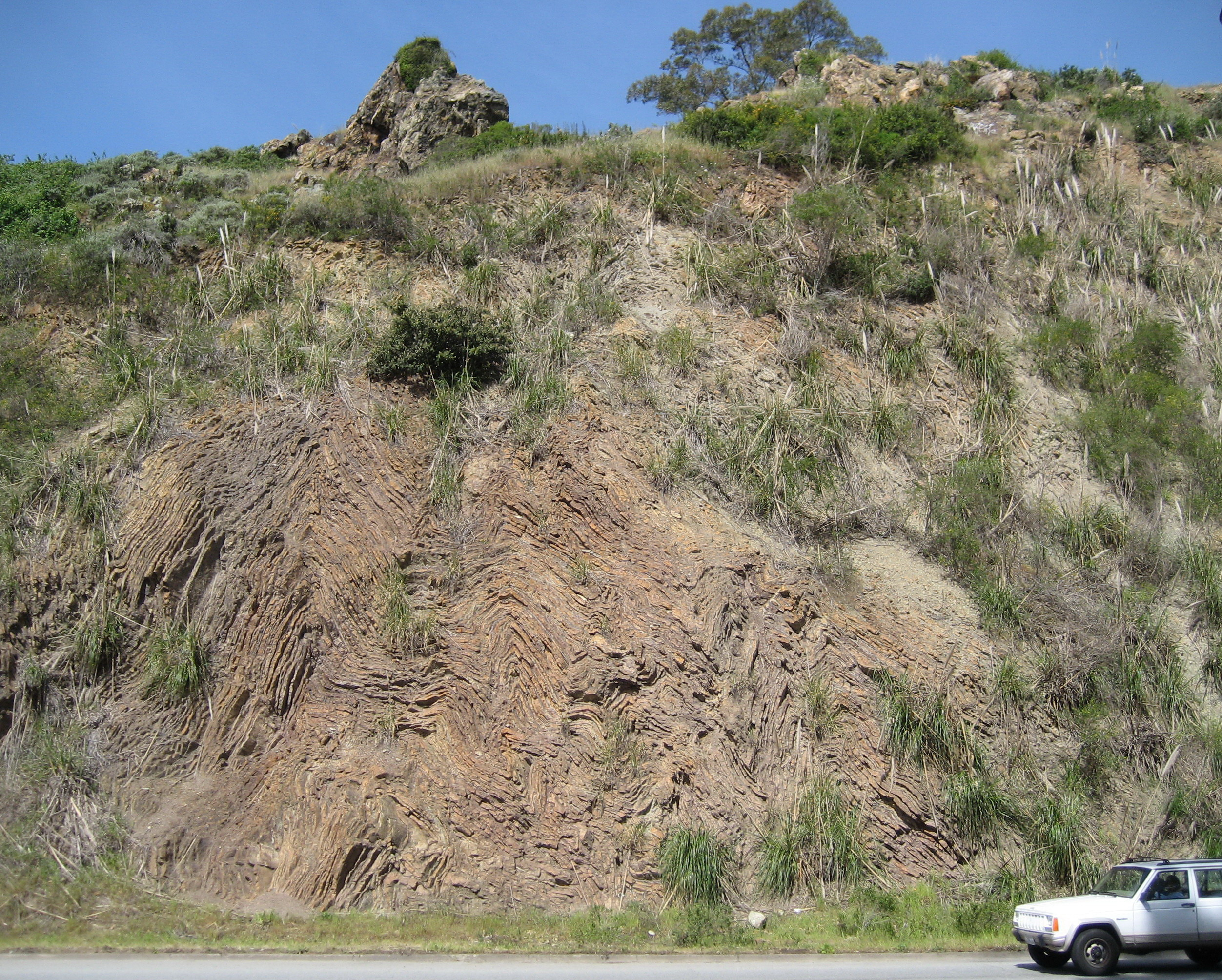 Roadcut revealing Franciscan chert rock, Glen Canyon Park, San Francisco, California.[1] This type of chert contains the skeletons of innumerable radiolarian creatures. It is a sedimentary rock, and the visible layering is due to the occasional inclusion of shale layers as the rock was deposited over millions of years.[2] The shale weathers more rapidly than the predominant chert, so the weathered rock looks like a stack. The remarkable folding of the stacked layers indicates the tectonic forces on this rock in this past, which warped the original planar layers into the fantastic shapes they now present. The road in the foreground is O'Shaughnessy Boulevard, which was constructed around 1935. This roadcut presumably dates from that time.[3]